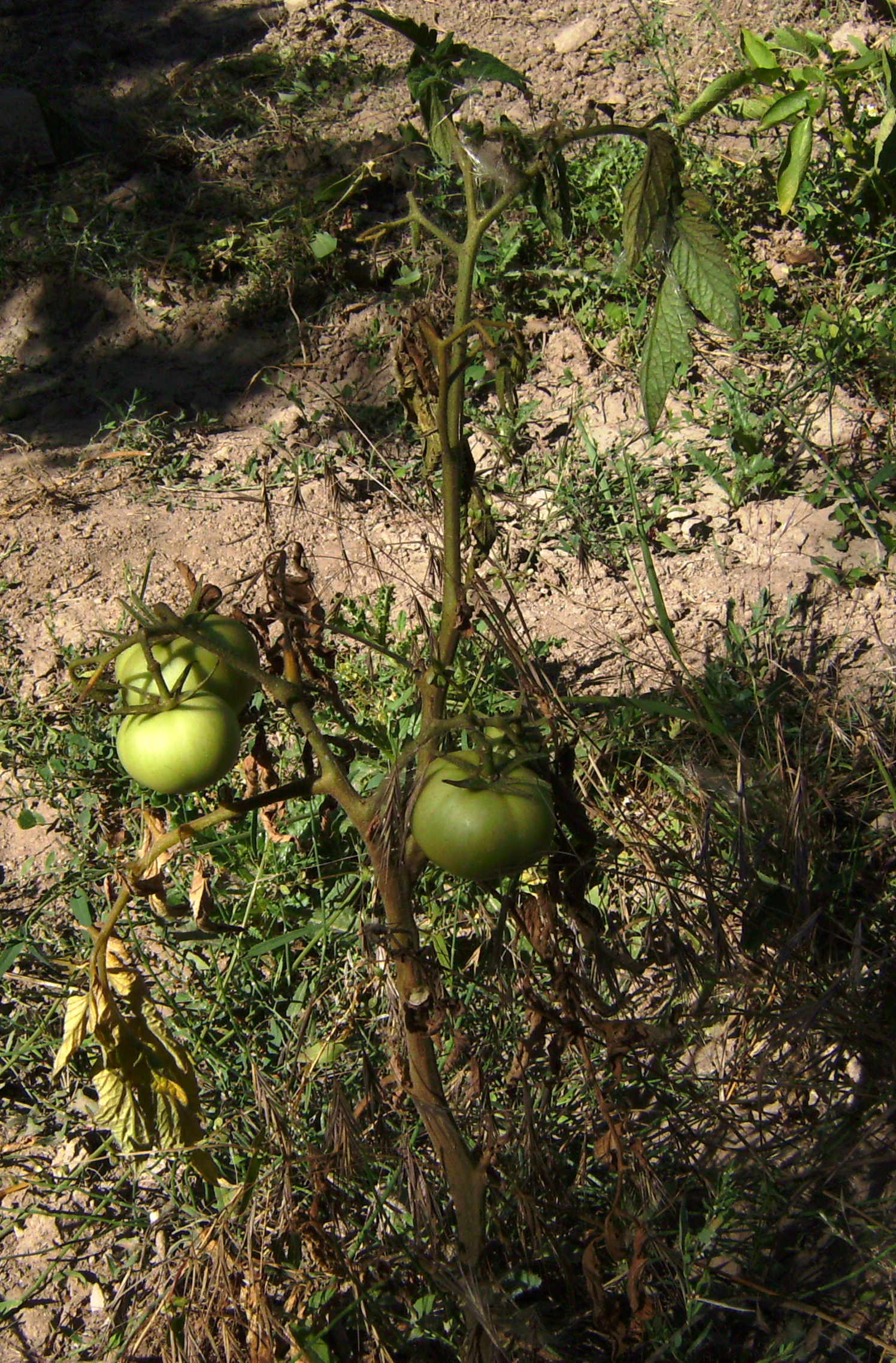 Tomato plant (cultivar Ace) affected by Fusarium oxysporum with brown stem and wilt leaves, Castelltallat Catalonia